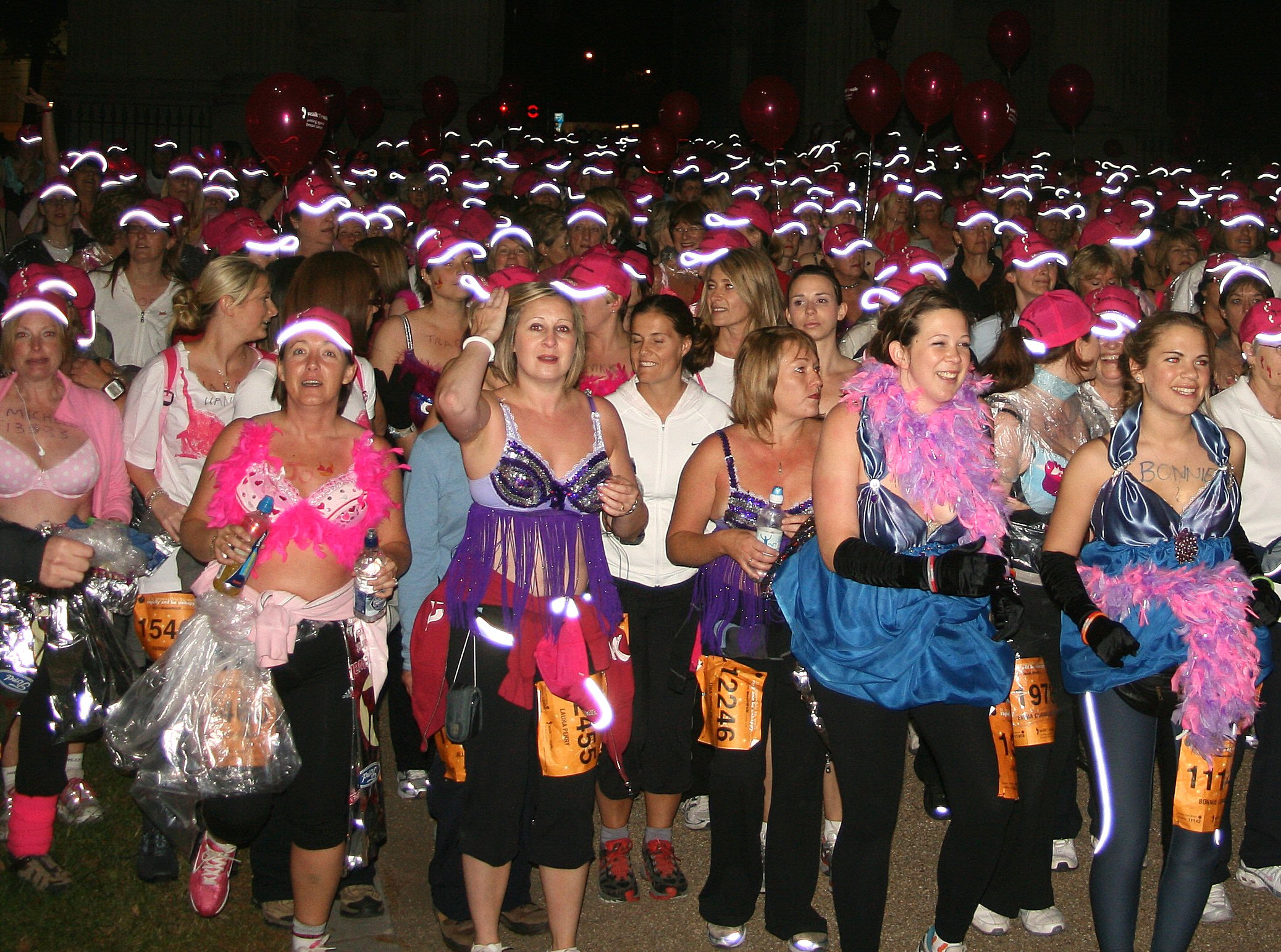 Moonwalk London 2009-Hyde Park